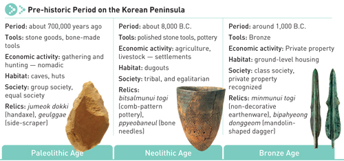 People began living on the Korean Peninsula and its surrounding areas from some 700,000 years ago. The Neolithic Age began some 8,000 years ago. Relics from that period can be found in areas throughout the Korean Peninsula, mostly in coastal areas and in areas near big rivers. The Bronze Age began around 1,500 to 2,000 B.C. in present-day Mongolia and on the peninsula. As this civilization began to form, numerous tribes appeared in the Lioaning region of Manchuria and in northwestern Korea. These tribes were ruled by leaders, whom Dangun, the legendary founder of the Korean people, later united to establish Gojoseon (2333 B.C.). The founding date is a testament to the longevity of Korea's history. This heritage is also a source of pride that provides Koreans the strength to persevere in times of adversity.